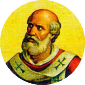 Portait of Pope John VI in the Basilica of Saint Paul Outside the Walls, Rome